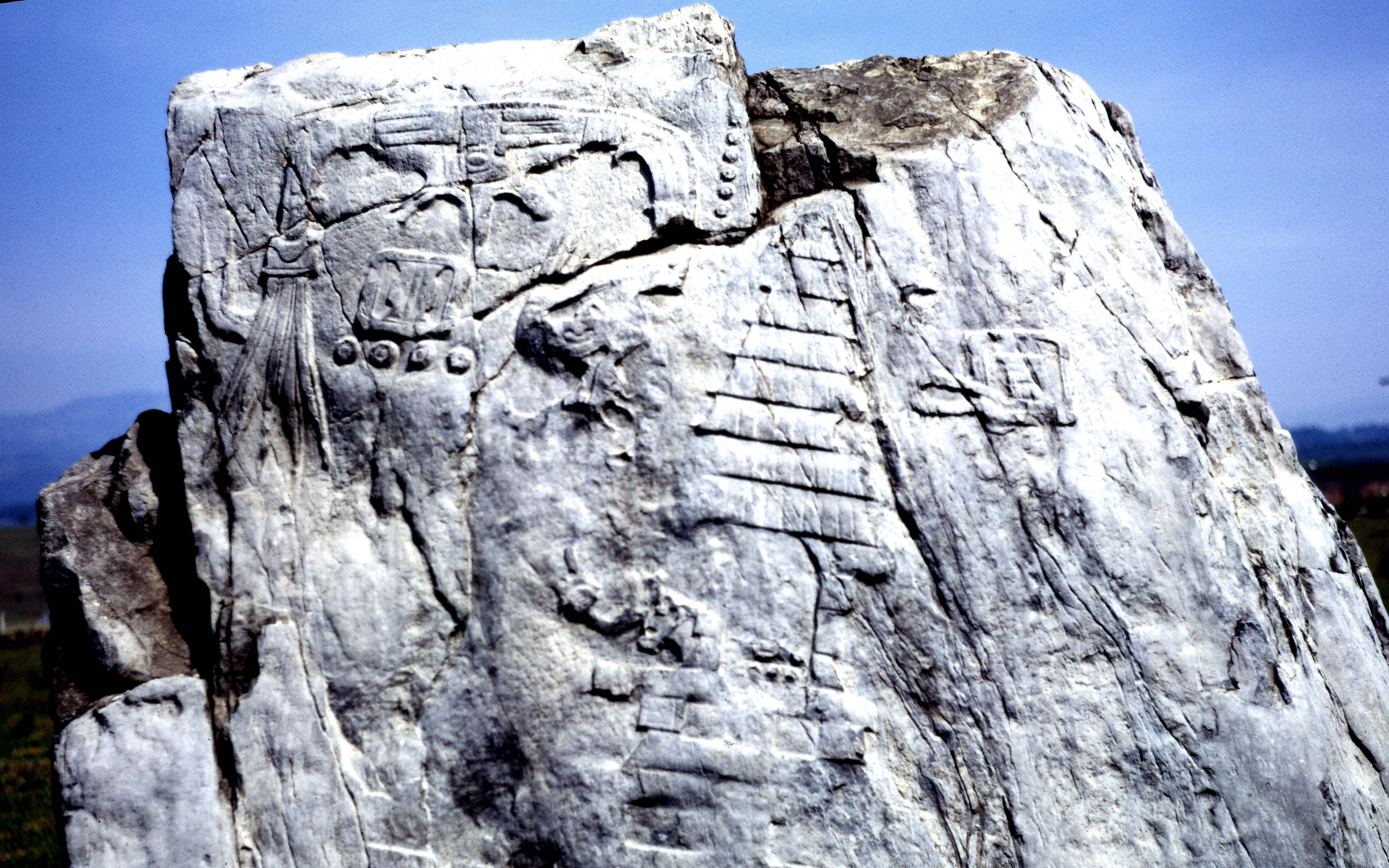 Maltrata stone, Veracruz, Mexico (Museum Jalapa)